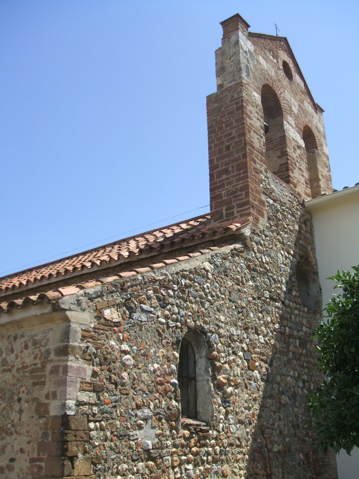 Château Roussillon : Sainte-Marie and Saint-Pierre chapel (XIth and XIIth centuries)